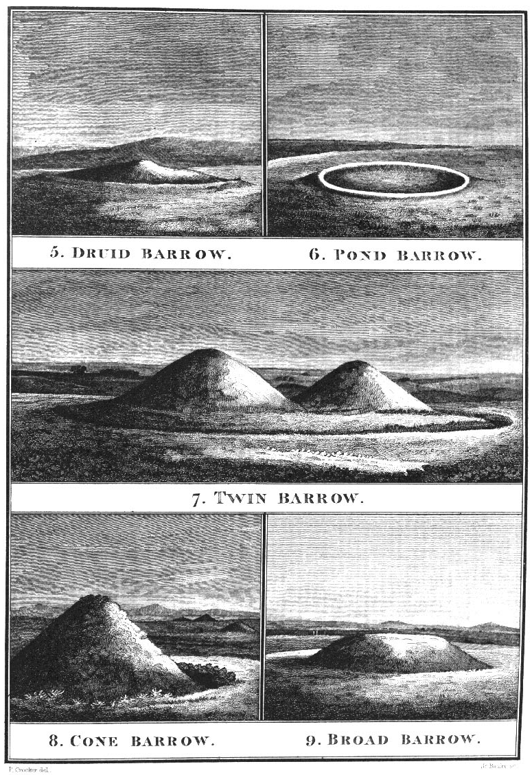 Engraving of barrow types, from Colt Hoare's introduction to "The Ancient History of Wiltshire".